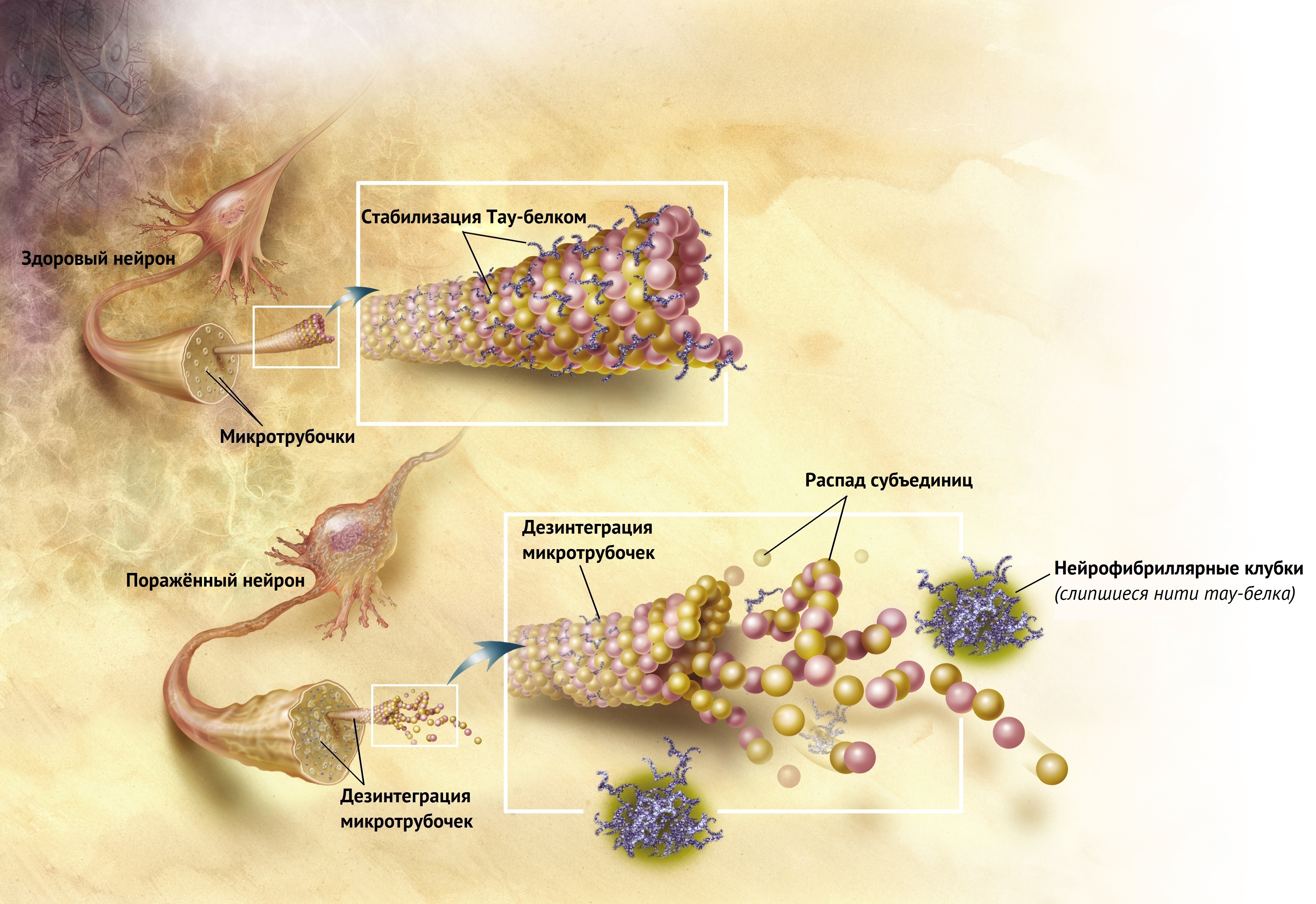 Diagram of how microtubules desintegrate with Alzheimer's disease